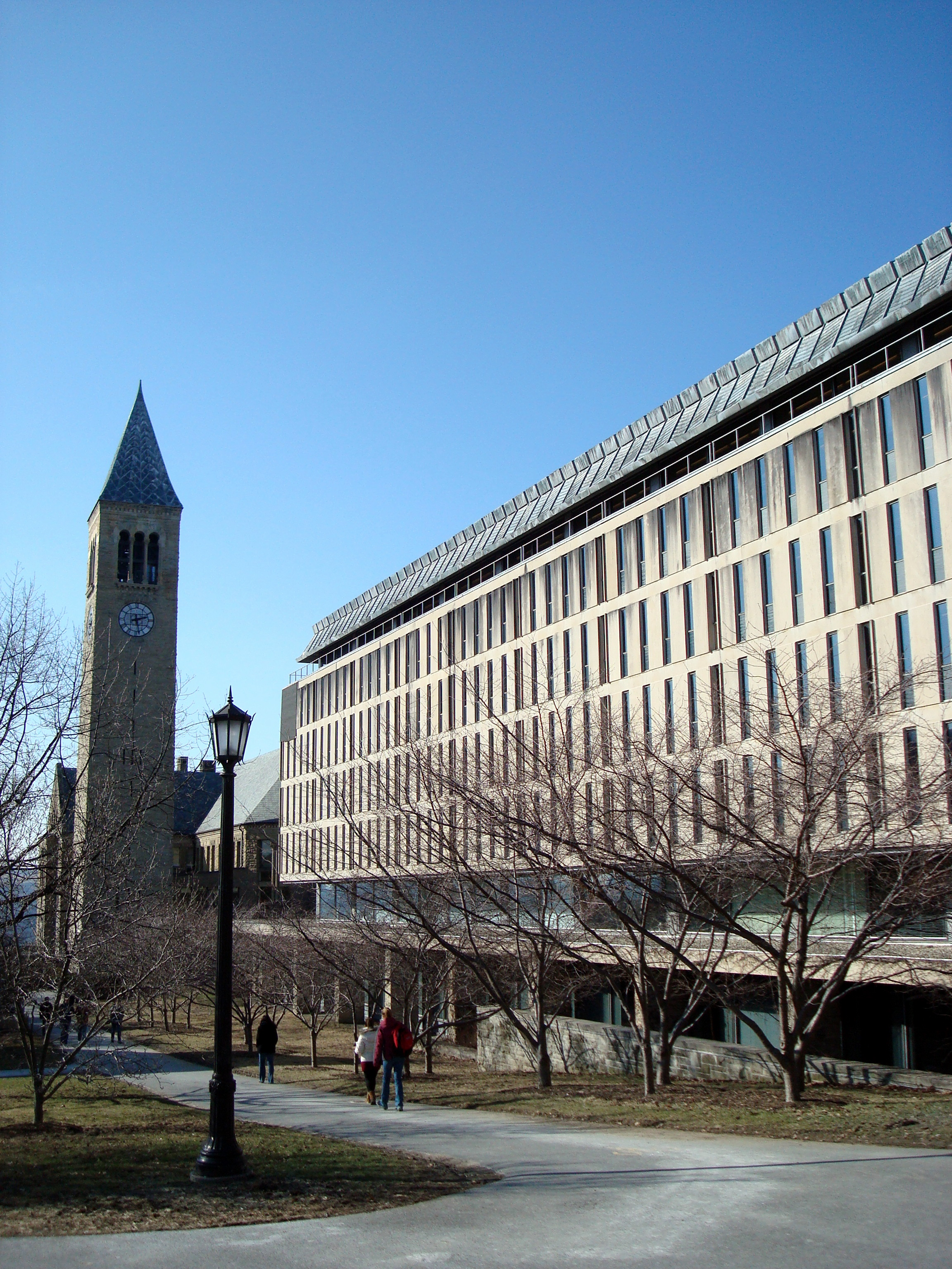 Olin Library, with McGraw Tower in the background, at Cornell University.